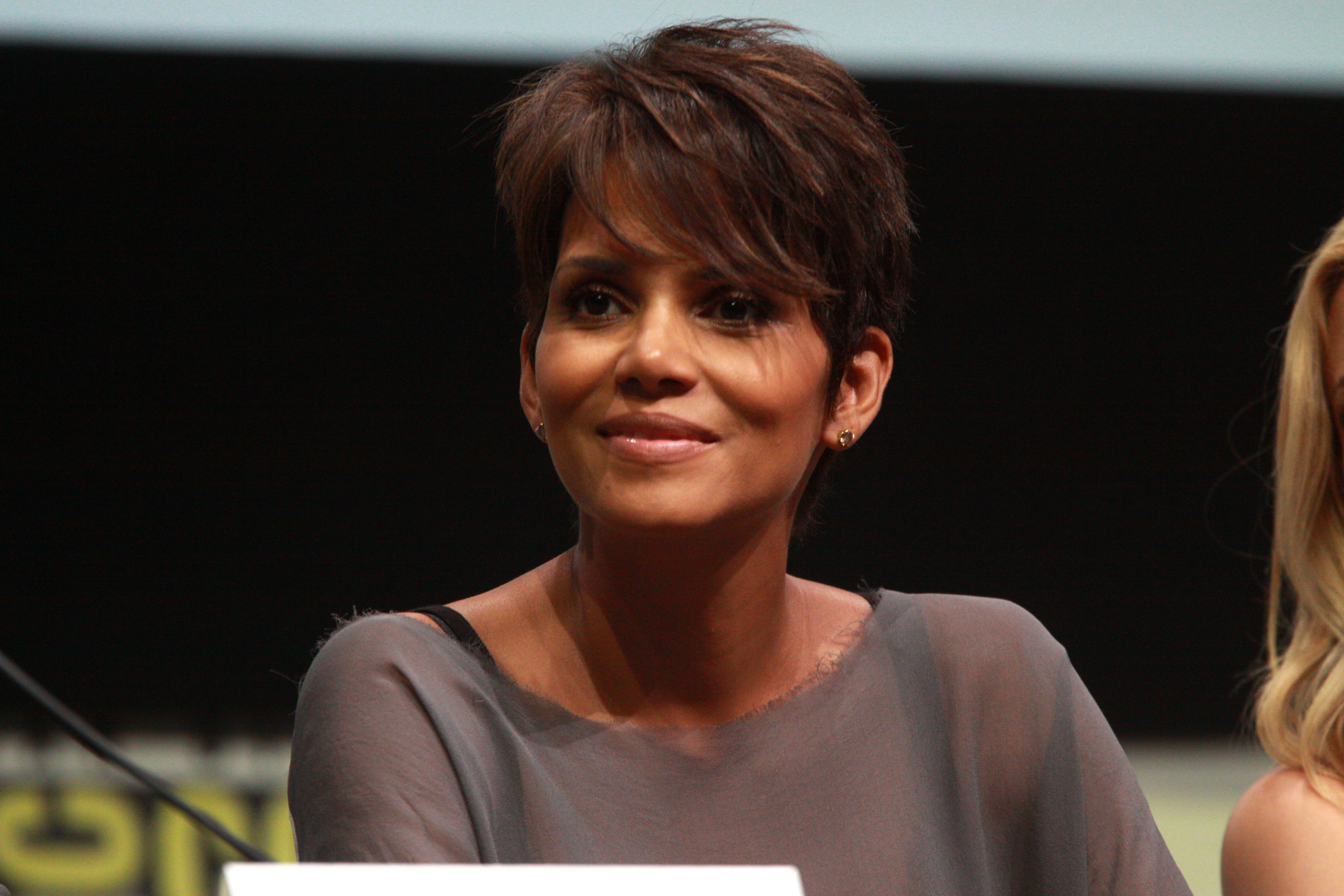 Halle Berry speaking at the 2013 San Diego Comic Con International, for "X-Men: Days of Future Past", at the San Diego Convention Center in San Diego, California.